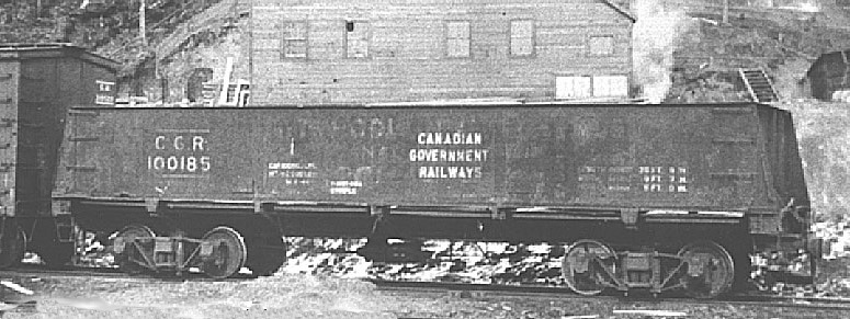 50 ton coal truck, CGR 100185 (Canadian Government Railways), former Intercolonial Railway. Cropped by the uploader to remove the watermark at the bottom.